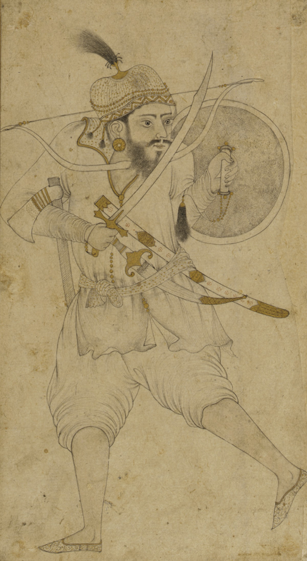 A Tatar soldier 16th century Ink and slight tint on paper H: 23.8 W: 13.3 cm Ahmadnagar, Deccan plateau, India Purchase F1929.79